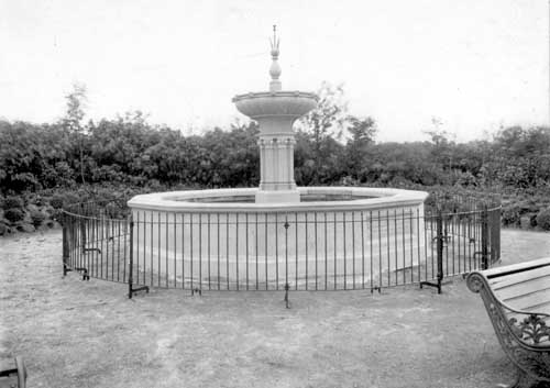 Fountain in Gotts Park, Armley, Leeds, West Yorkshire, UK. Taken in 1898.